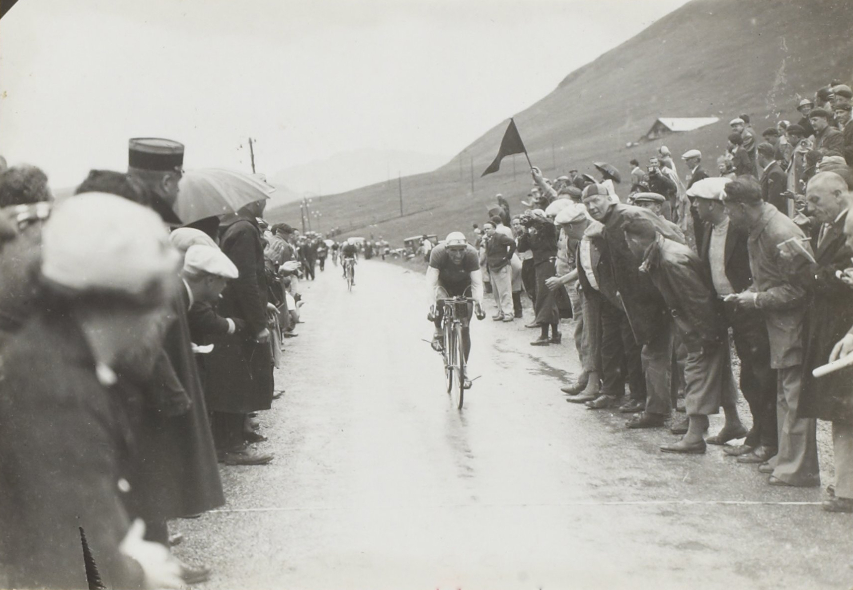 Tour de France 1936